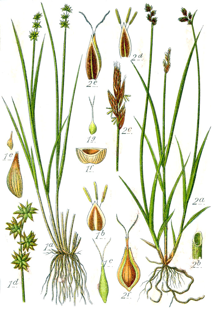 1. Carex echinata Murray, 2. Carex ovalis Gooden., syn. Carex leporina L., pro parte Original Caption 1. Stachel-Segge, Carex echinata 2. Hasen-Segge, C. leporina